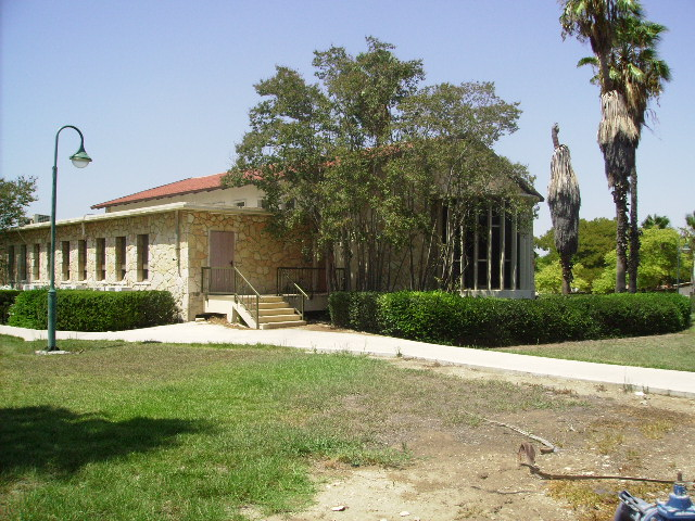 Synagogue at Kibbutz Chafetz Chaim